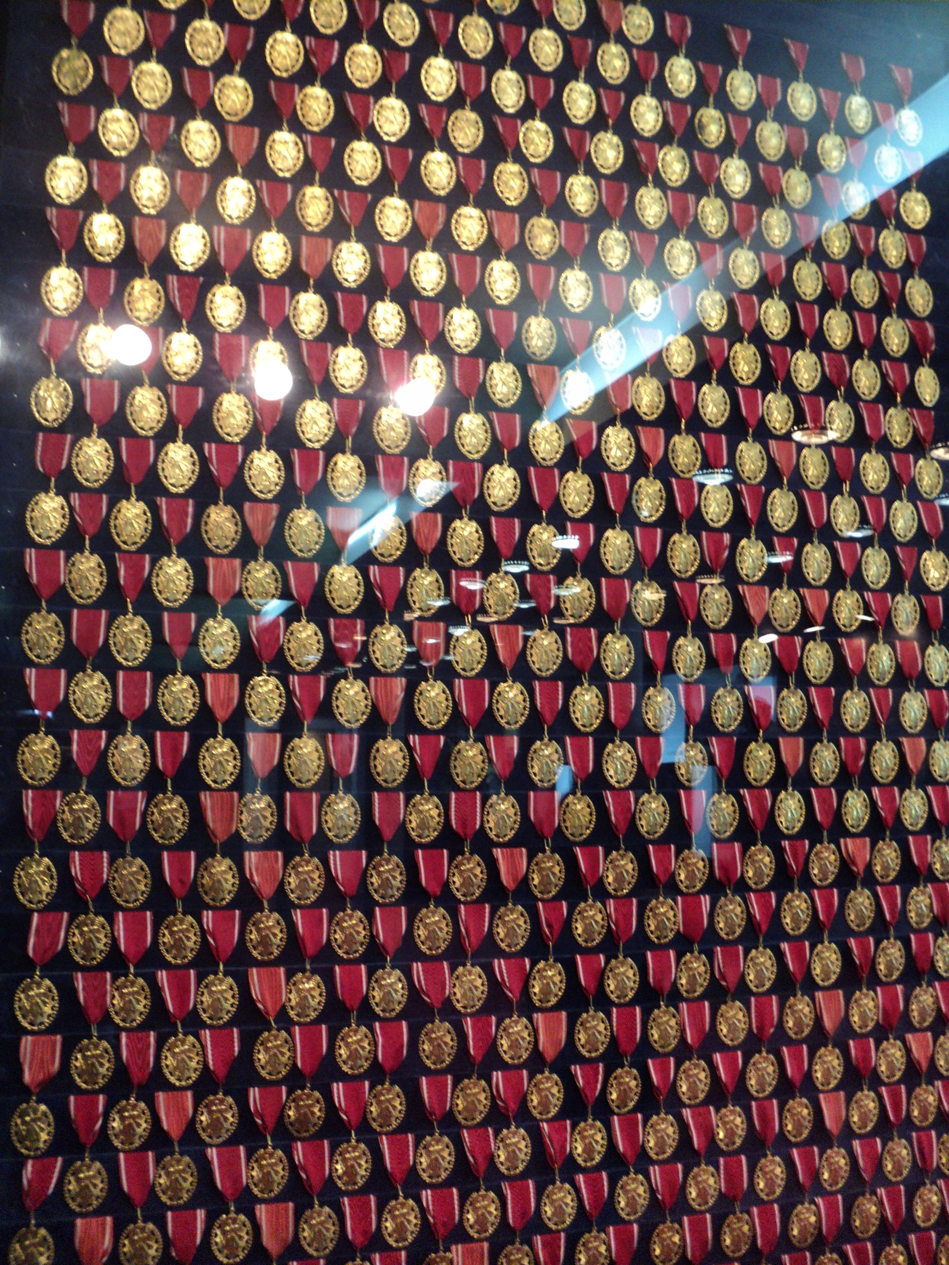 Orders of People's hero of Yugoslavia in Belgrade Military Museum.